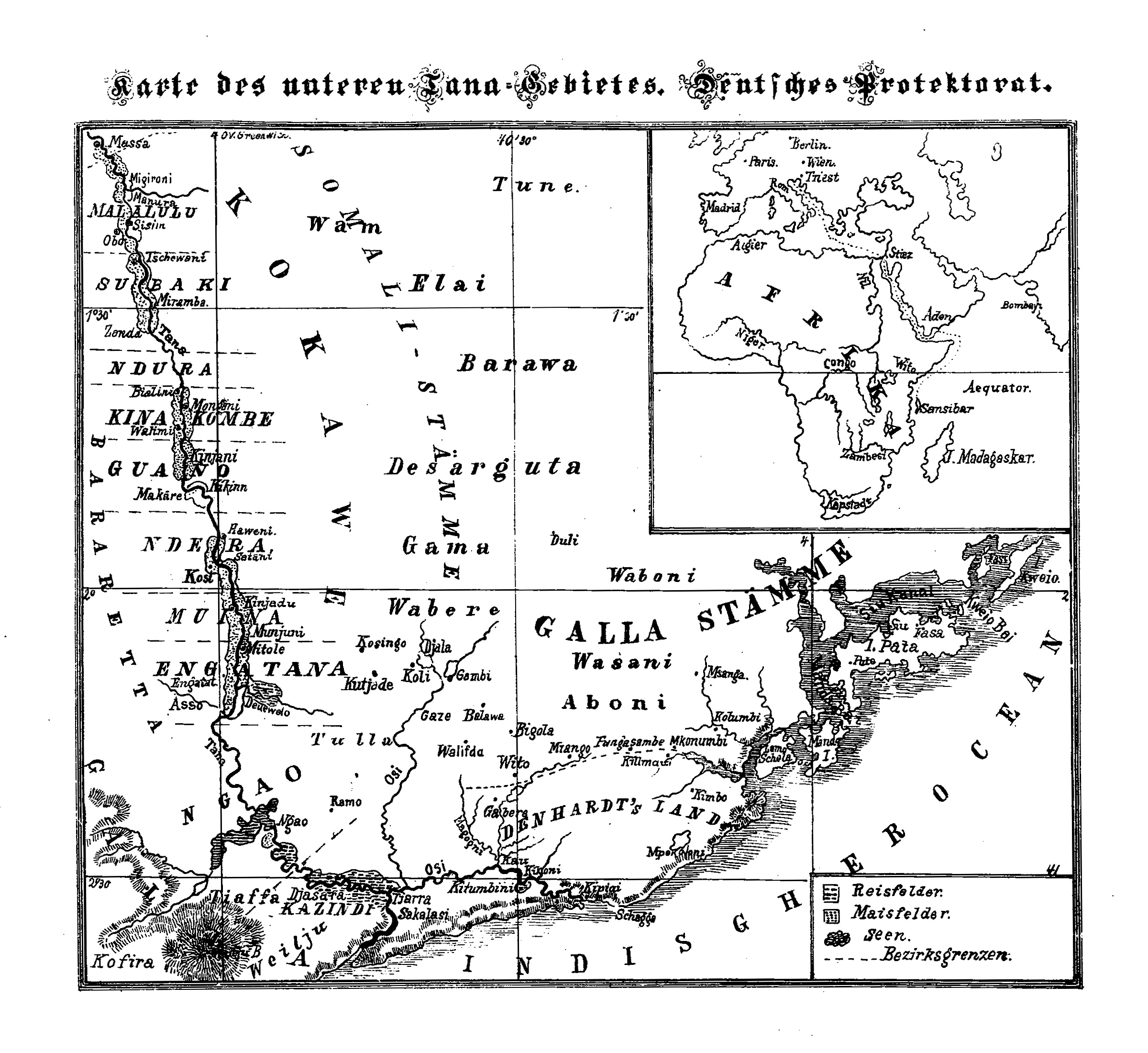 Denhardt's Land at the river Tana in East Africa.